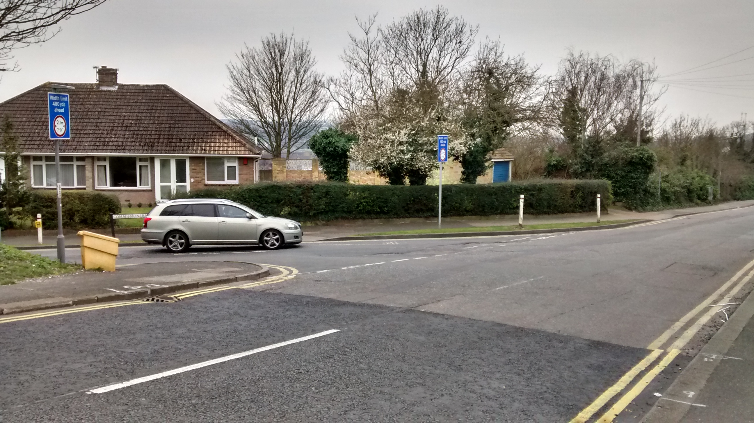 A T-junction or priority junction in Strood, Kent